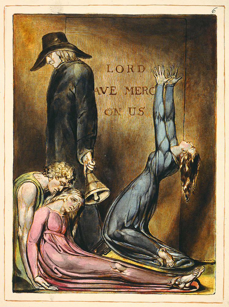 Plate from Europe a Prophecy, copy K, in the collection of the Fitzwilliam Museum, Cambridge University.